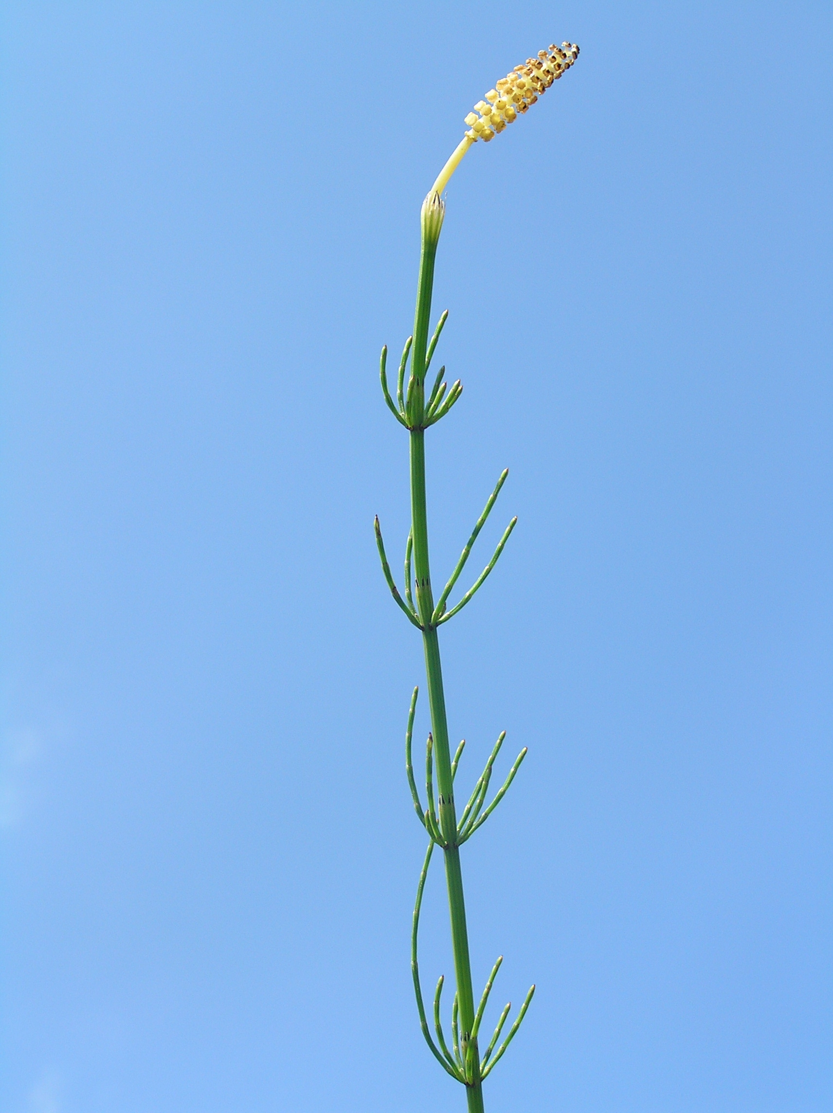 Equisetum palustre, Rusava, Moravia, Czech Republic